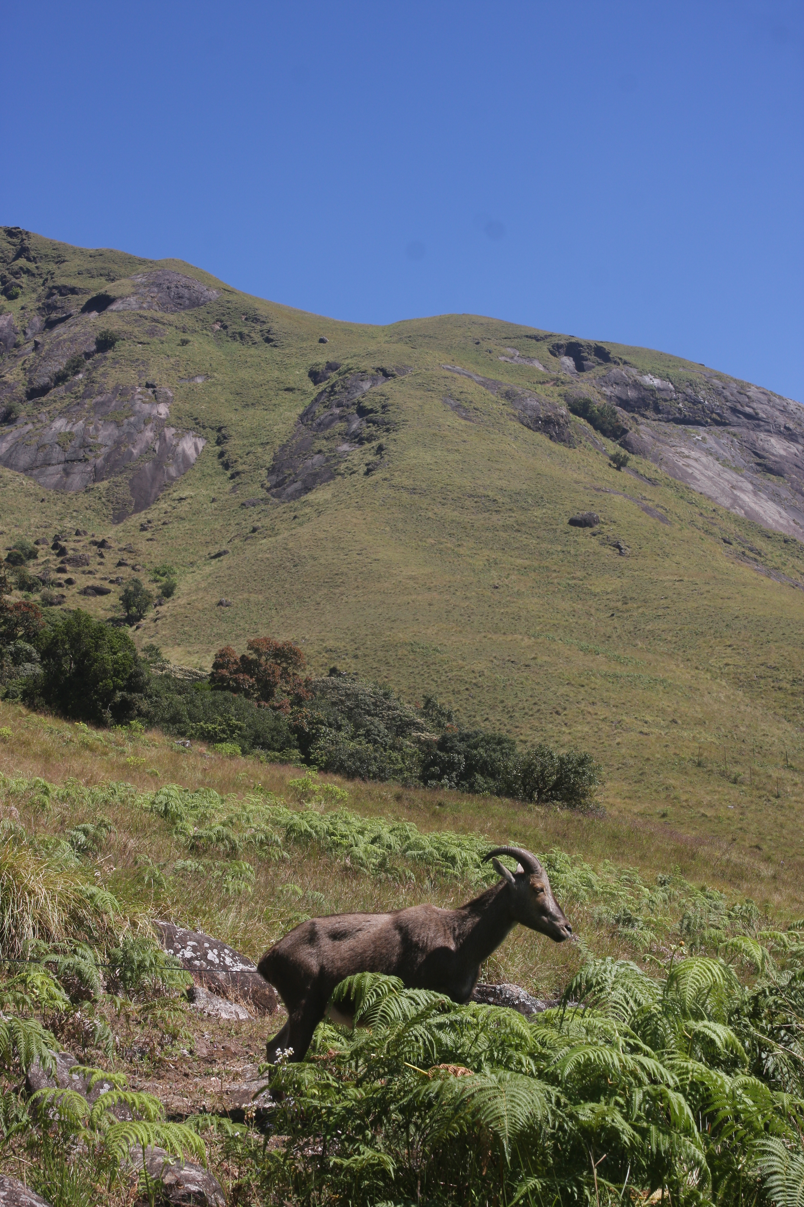 Nilgiri Tahr (Nilgiritragus hylocrius).